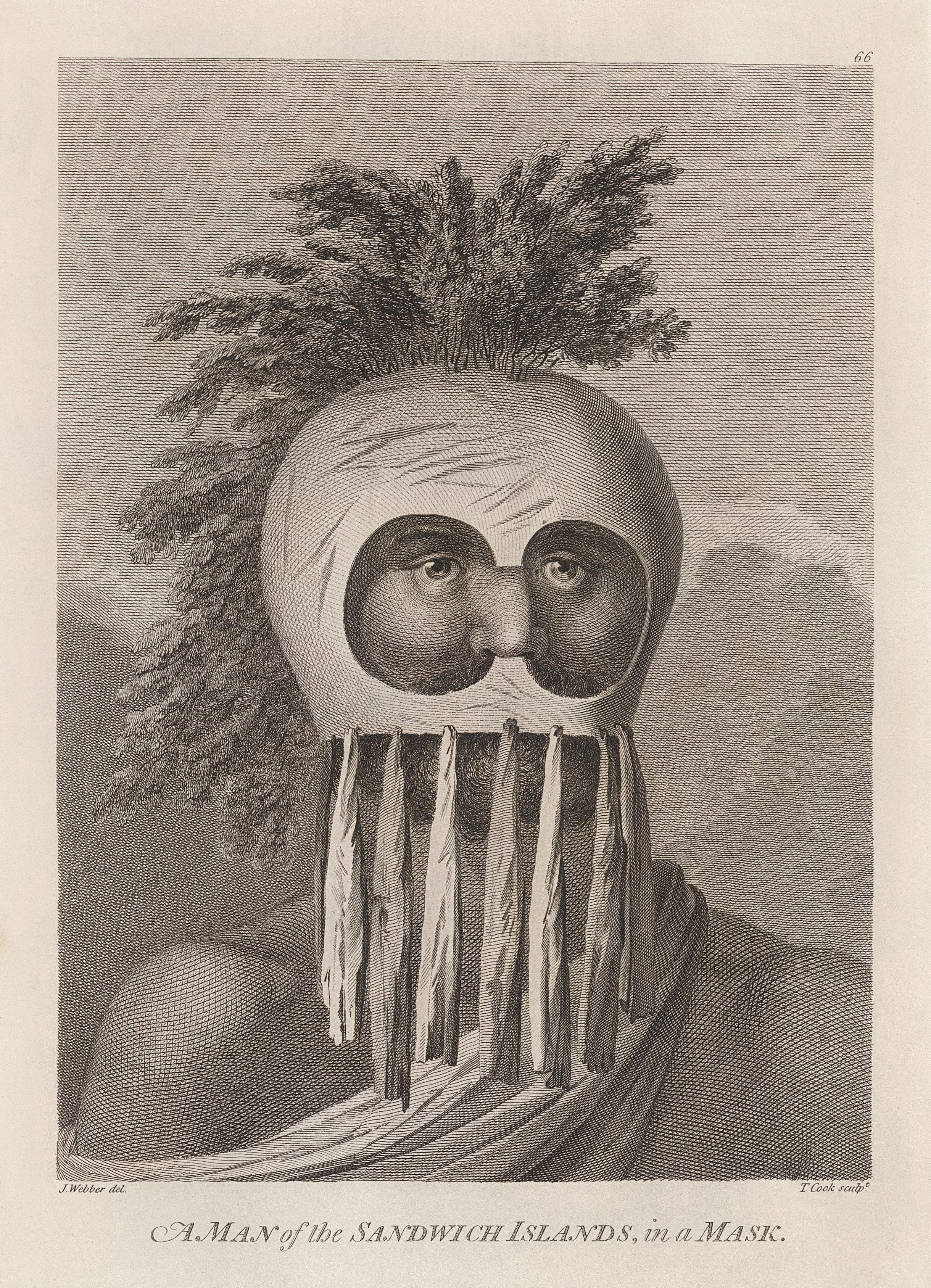 A Man of the Sandwich Islands in a Mask, engraving after John Webber, published by Nical and Cadell, London, England, ca 1784